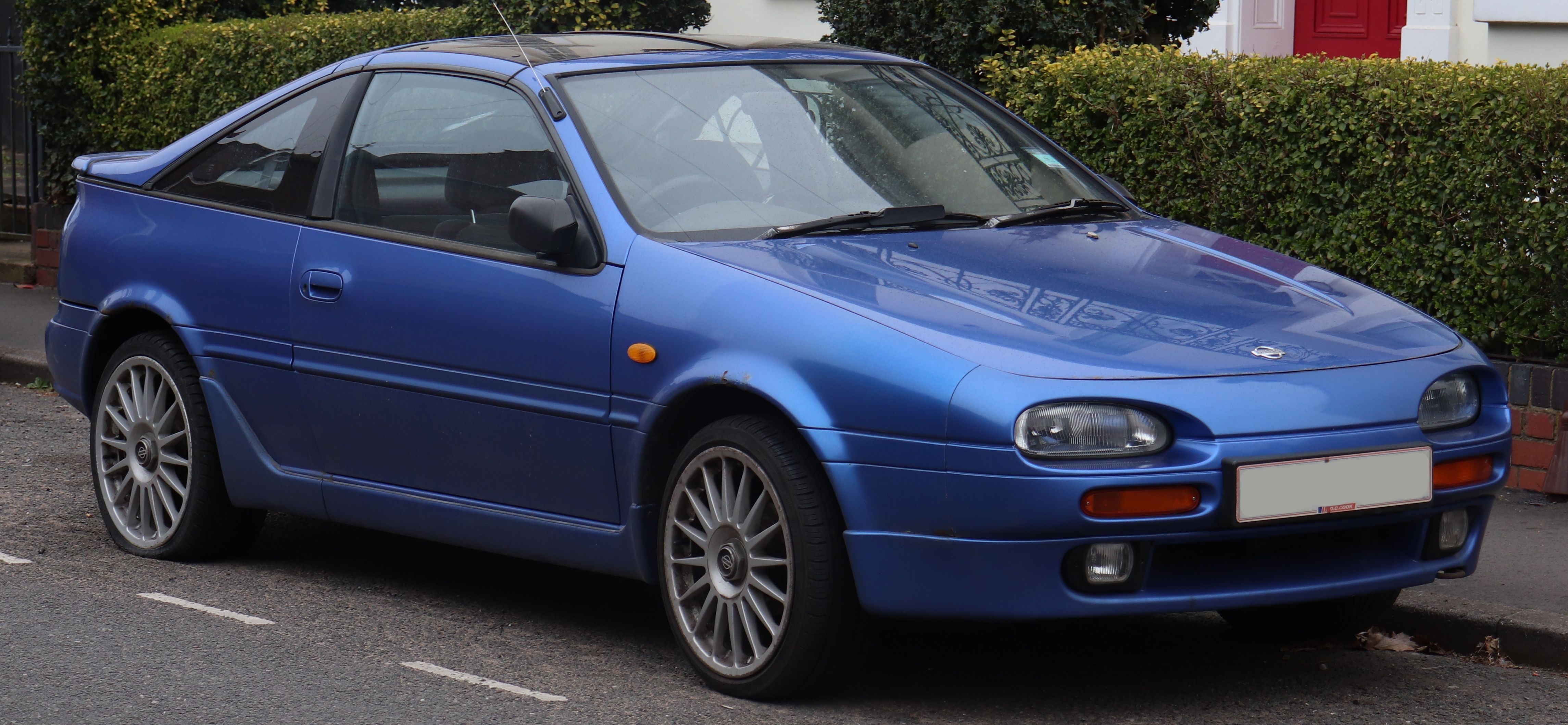 1995 Nissan 100NX 1.6 Front Taken in Warwick